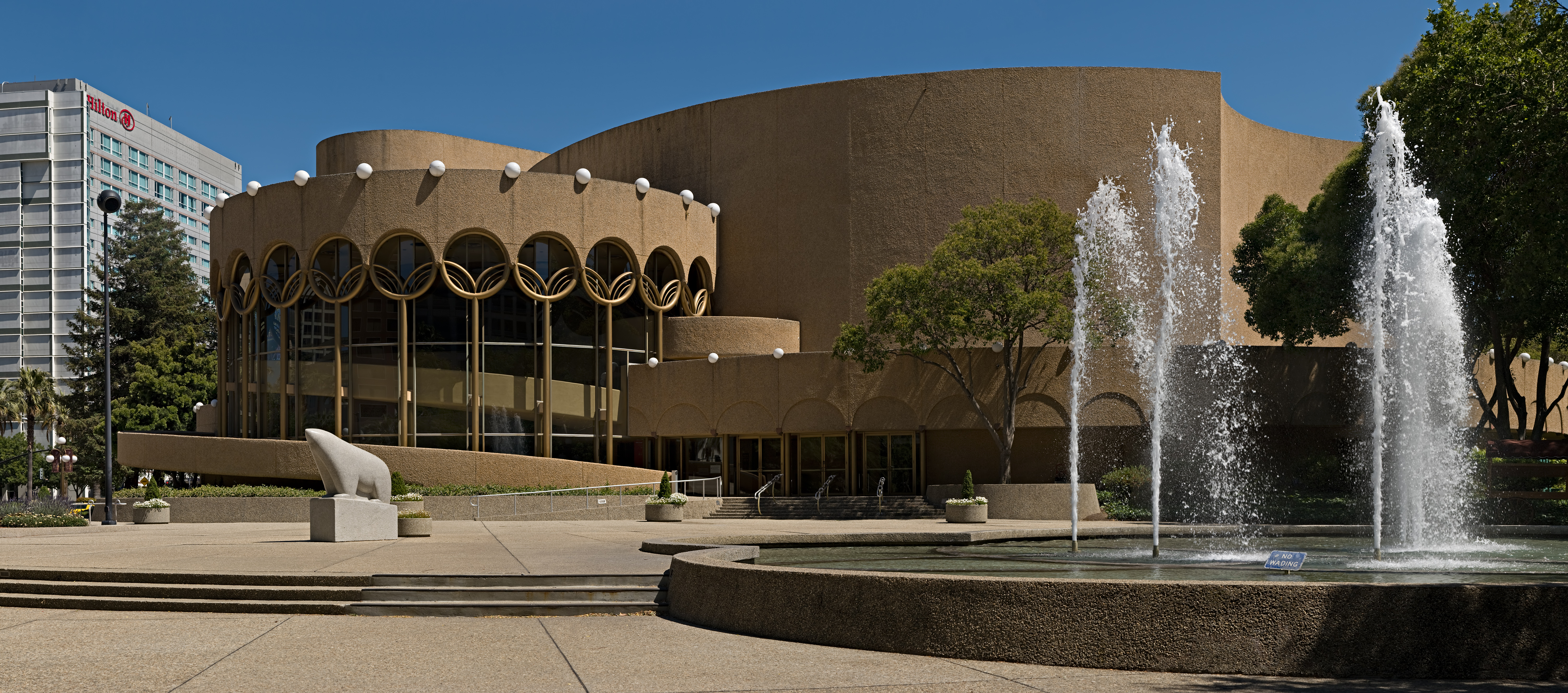 The San Jose Center for Performing Arts is a general purpose venue for several performing arts organizations in San Jose, California, hosting symphonies, musicals, and ballet.